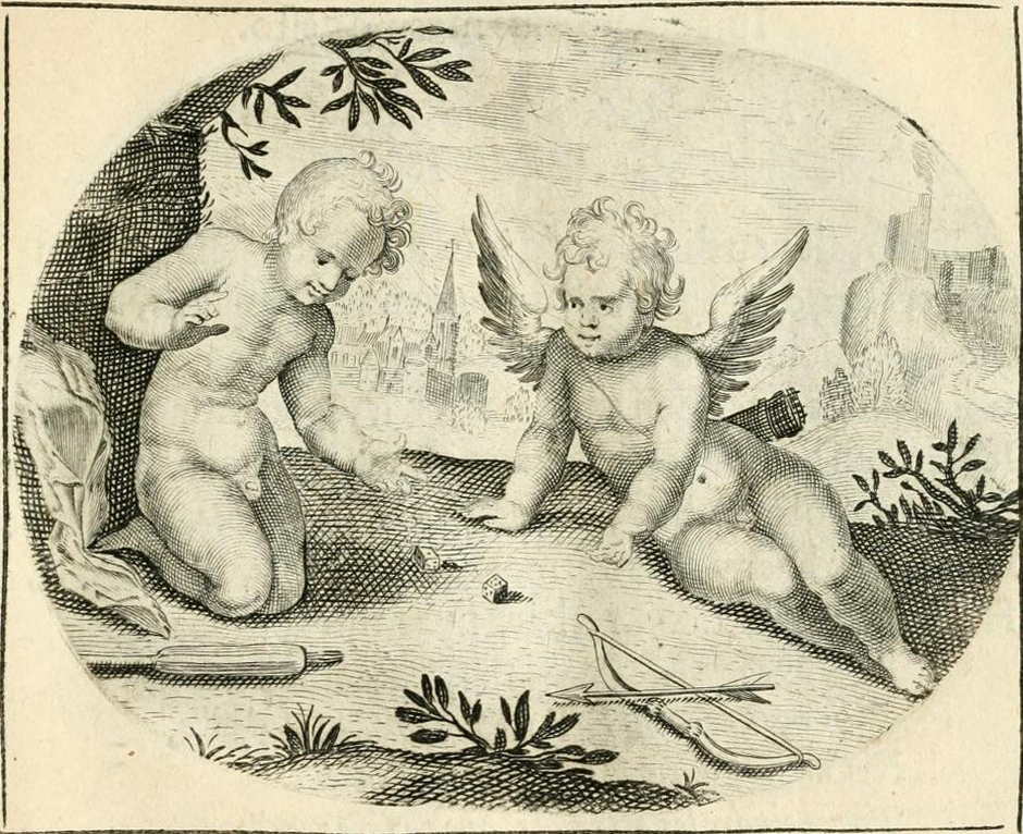 Cupido and Knucklebones. From Daniel Heinsius "Het ambacht van Cupido : op een nieuw ouersien ende verbetert", 1615.